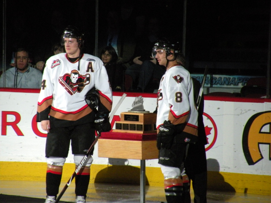 Calgary Hitmen co-captains Carson McMillan (left) and Kyle Bortis accept the Scotty Munro Memorial Trophy as the 2008–09 Western Hockey League regular season champions prior to their opening playoff game in Calgary.